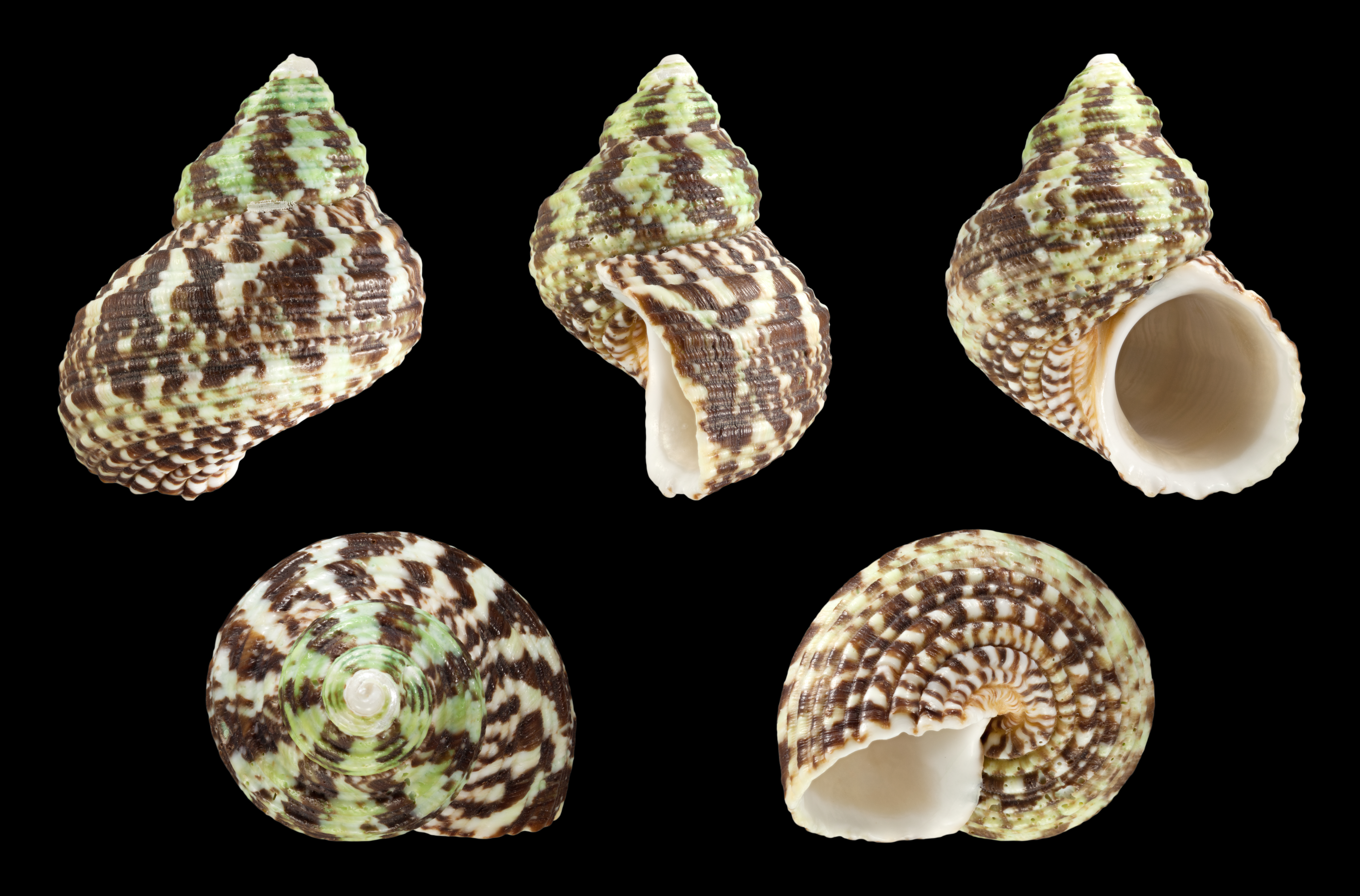 Turbo intercostalis Menke, 1846, Ribbed Turban; Height 4.5 cm; Originating from the Philippines. Shell of own collection, therefore not geocoded.